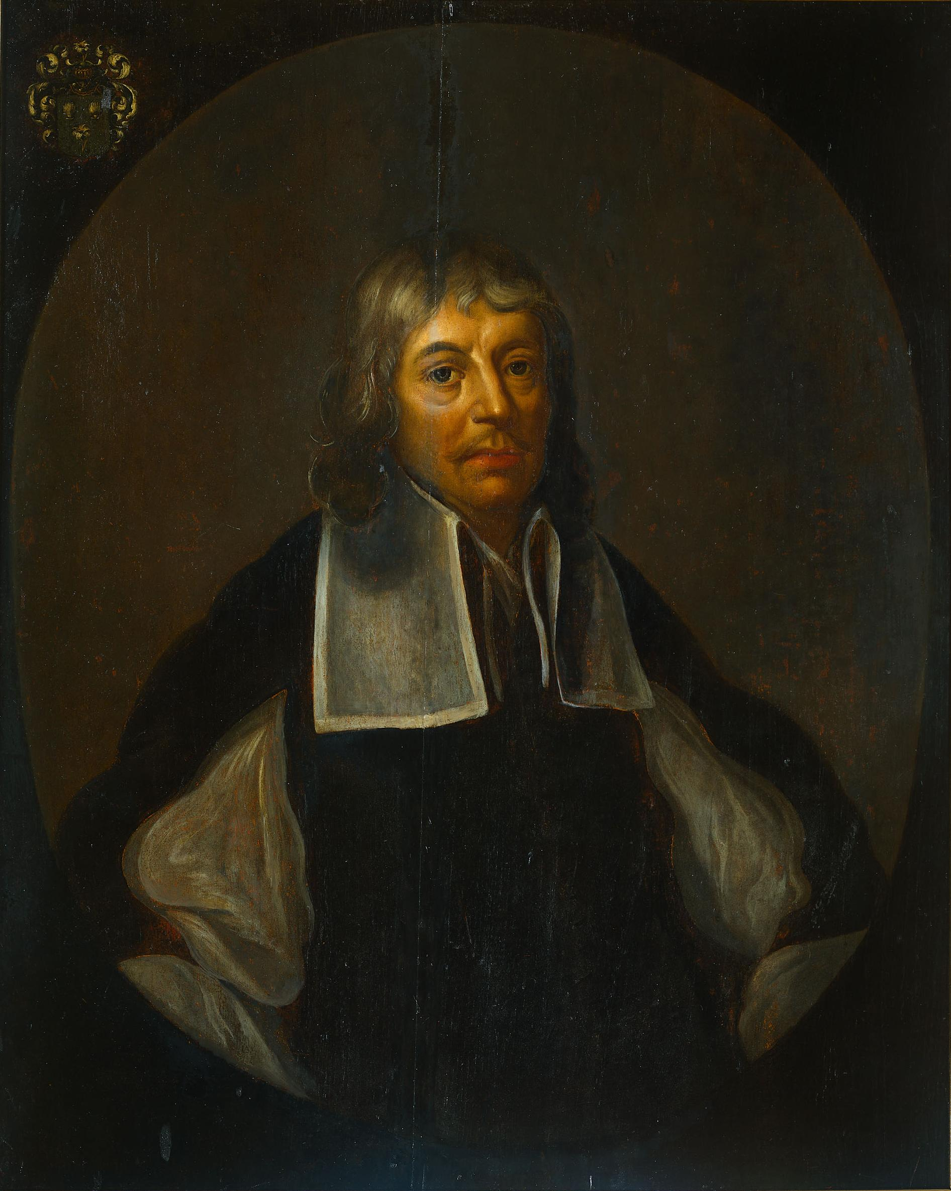 Portrait of Joan Maetsuycker (1606-1678), Governor-General of the Dutch East Indies from 1653 to 1678. At half-length, in oval, facing right. Part of the Governors-general series.